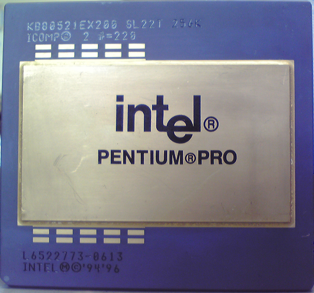 Pentium Pro